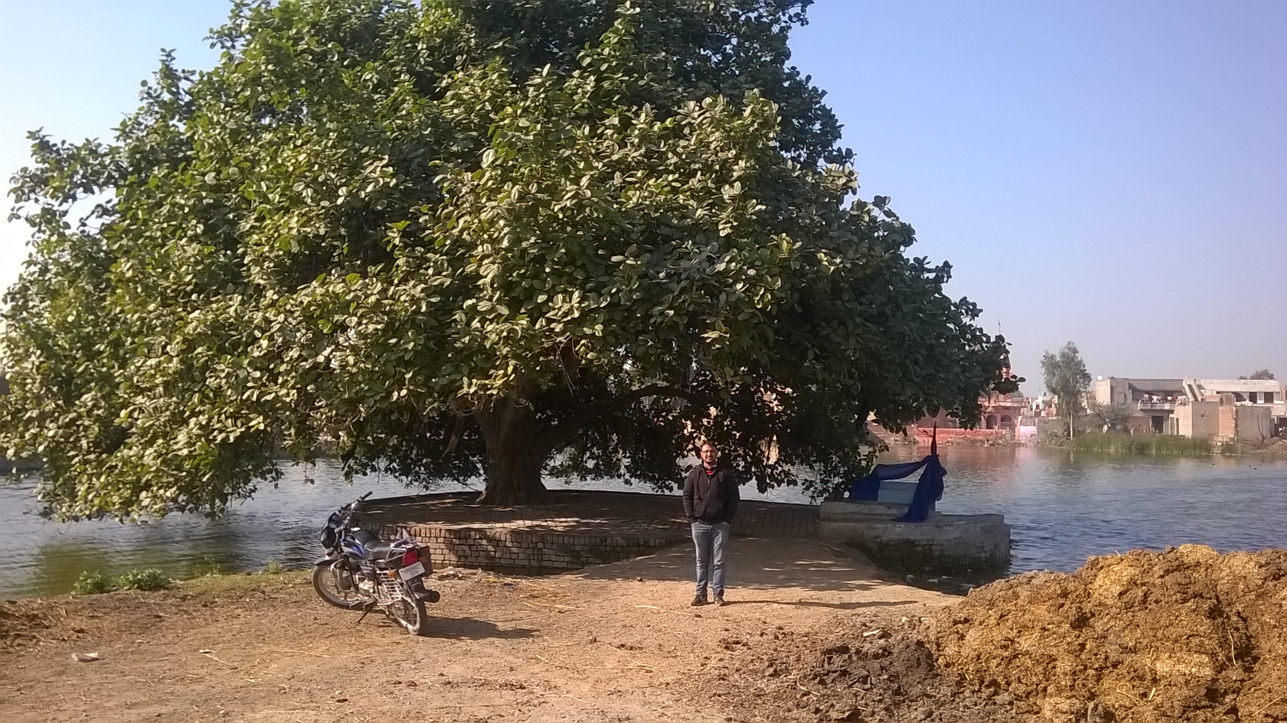 Jod in Gagsina village for all kinds of water solutions. In a village, you may find more than 03 Jod